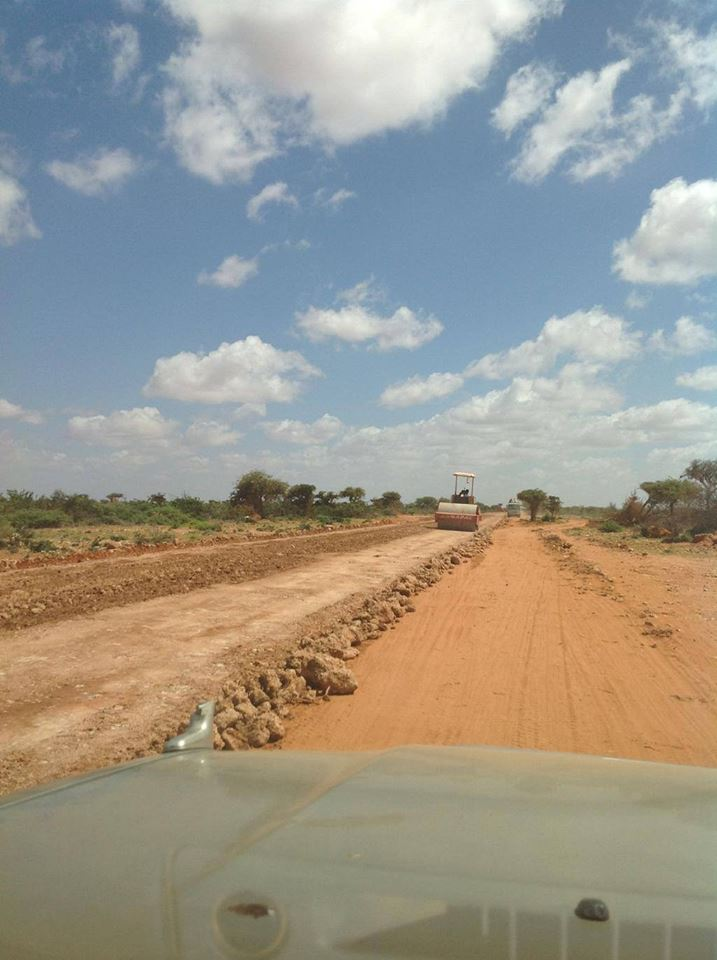 Jidka isku xira Galdogob iyo Galkacyo kaasoo dadka deegaanku samaysanayaan.